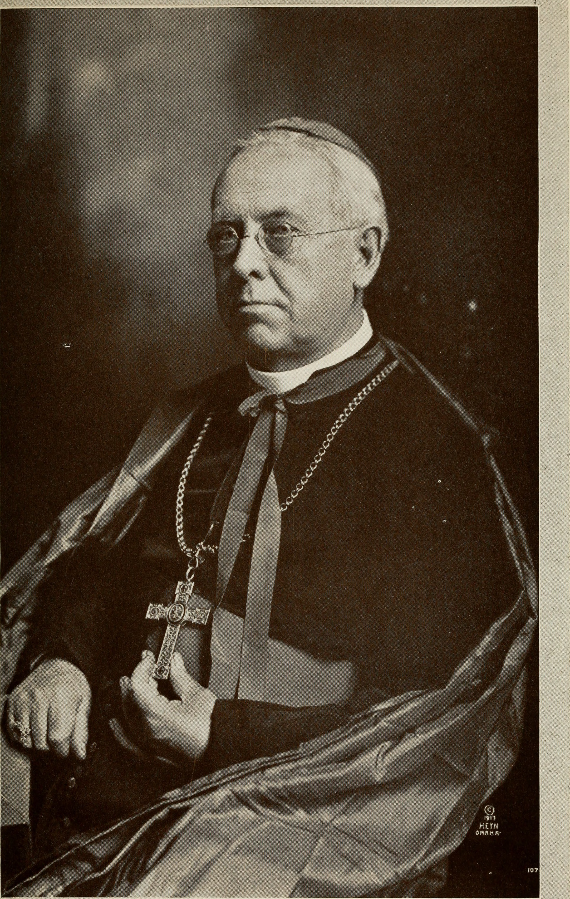 Title: The Creighton Chronicle Year: 1917 (1910s) Authors: Creighton University Subjects: Publisher: Creighton University Text Appearing Before Image: He was a great executive, a man of tact, firmness, andbroad comprehension. He was a devoted pastor. His own high andblameless character was an example and an inspiration to hispeople. But what was more to their hearts than all else, he wasvery truly their father: sympathetic, affable, open to all, con-cerned for all. Above and beyond their admiration for hiscapable government and their reverence for his ecclesiasticalauthority and their pride in his accomplishments, his peoplegave him that which is the highest tribute in a peoples power,their sincere love and their complete, affectionate confidence. 1»6 THE CRBIGHTON CHRONICLE In the very brief time Archbishop Harty has been in hisnew diocese, it has been a matter of delight to see how the charmof his personality has grown upon the people of Omaha. Asthey come to know him better, they will surely esteem himeven more. May God give him many years for the service andupbuilding of his diocese and for the profit and edificationof us all. Text Appearing After Image: MOST REVEREND JEREMIAH J. HARTY, D. D. Digitized by the Internet Archive in 2012 with funding fromCreighton University Archives THE CREIGHTON UNIVERSITY *Most Reverend J. J. Harty, D. D. Icreightonchronic8n4crei